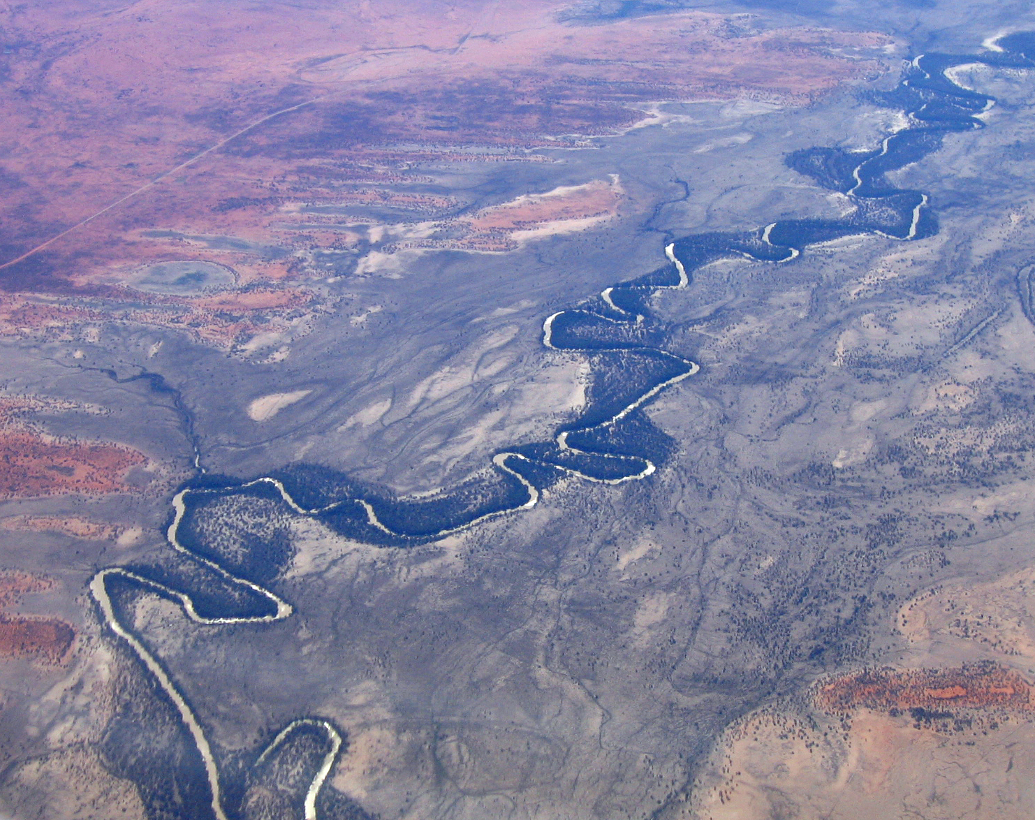 Aerial view of the Darling River near Menindee on the flight from [Dubbo to Broken Hill